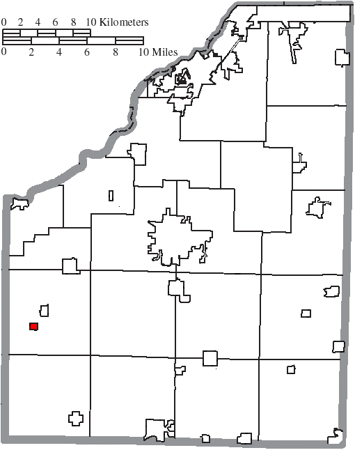 Map of the municipal and township boundaries of Wood County, Ohio, United States, as of the 2000 census, with the location of the village of Custar highlighted. Township borders are shown only in unincorporated areas in order to differentiate incorporated and unincorporated areas more clearly.